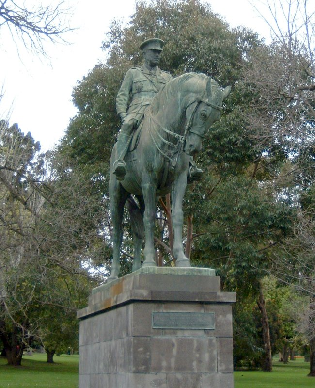 Statue of General Sir John Monash in King's Domain, Melbourne. The plaque reads: General Sir John Monash Soldier and Engineer Commander the Australian Corps France 1918 Chairman State Electricity Commission 1921–33. 1865 – 1931